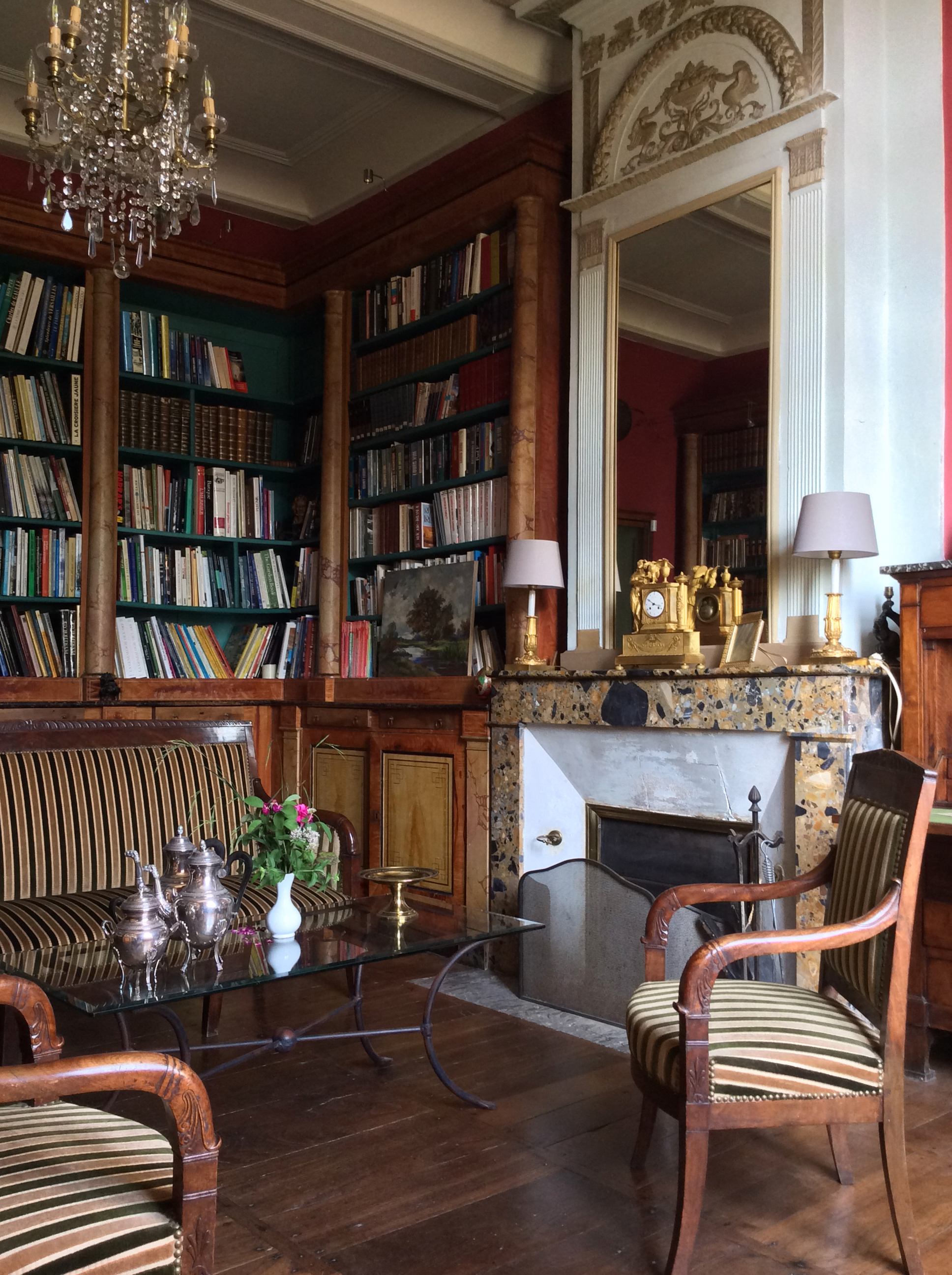 vue de la bibliotheque, avec les meubles empire